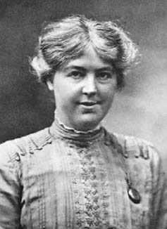 Photograph portrait of Chrystal MacMillan as a young woman.